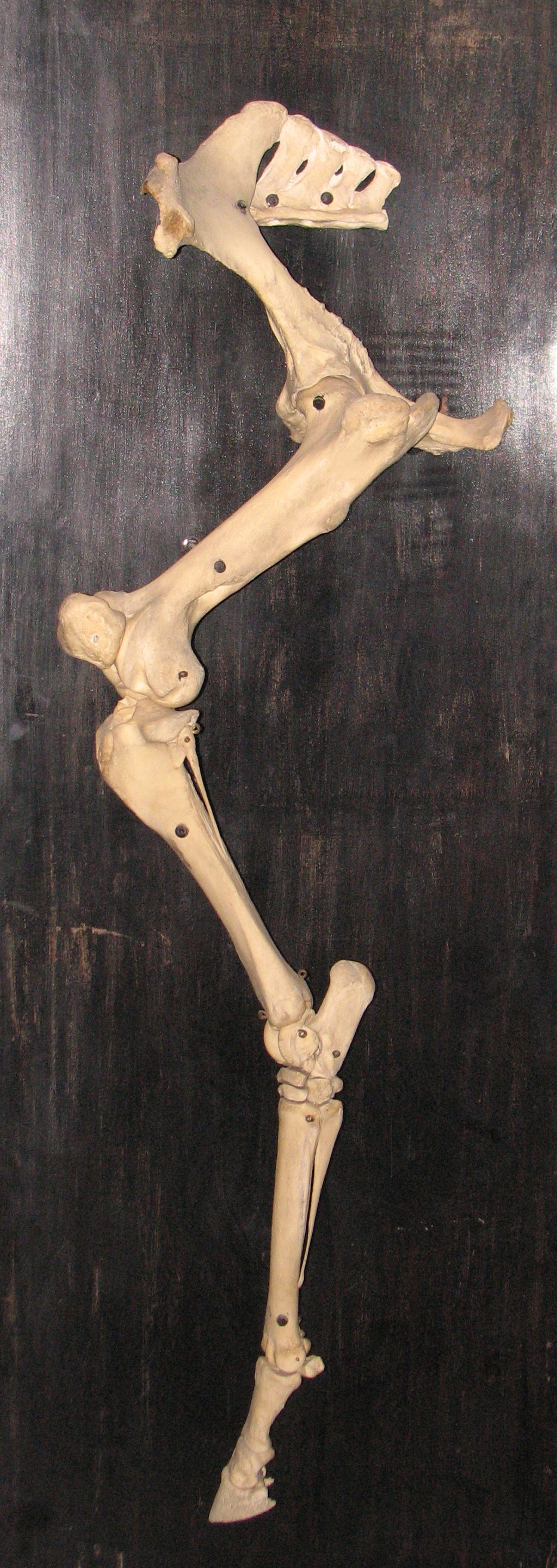 Skeletal parts of the legs of a horse